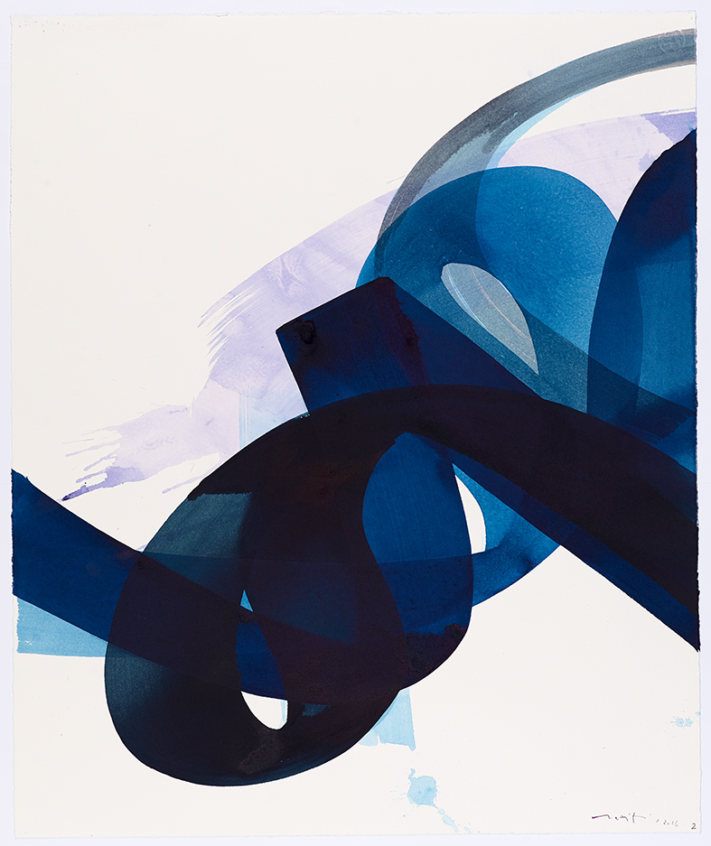 From the serie "Osmose": "Osmose 2", 80 x 95 cm, ink on paper, Aatifi 2015